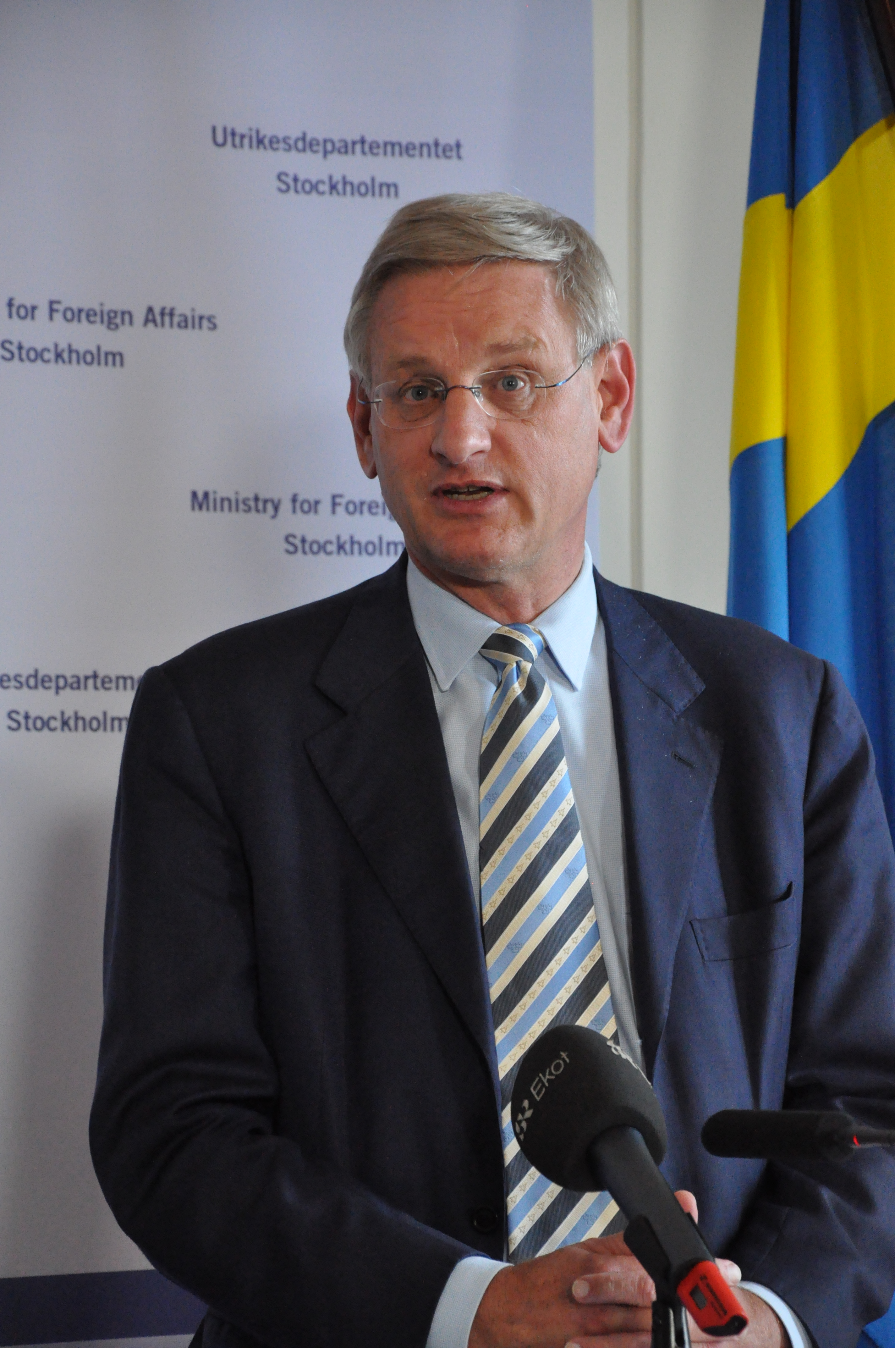 Carl Bildt at a meeting with Guido Westerwelle, at the foreign ministry in Stockholm, Sweden